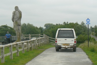 Gauging the Ripple sculpture by Thompson Dagnall at the Ribble Link in Lancashire, England